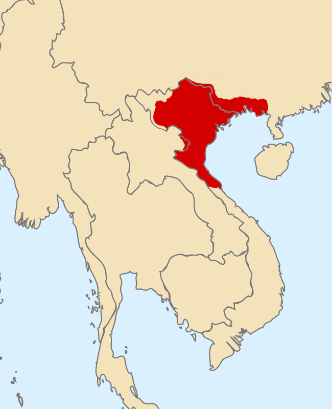 Map of Vạn Xuân kingdom during Early Lý dynasty (544 - 602)